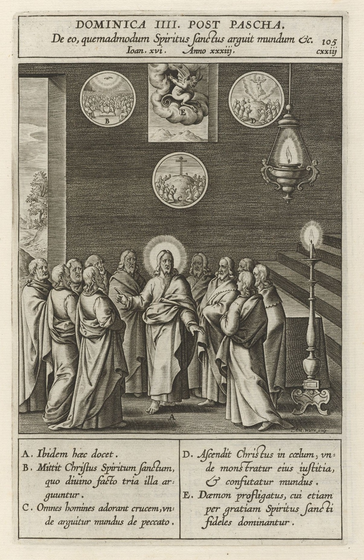 Illustration (plate 105) from Adnotationes et meditationes in Euangelia quae in sacrosancto Missae sacrificio toto anno leguntur, 1595, by Jeronimo Nadal. WKR 13.4.9, Houghton Library, Harvard University